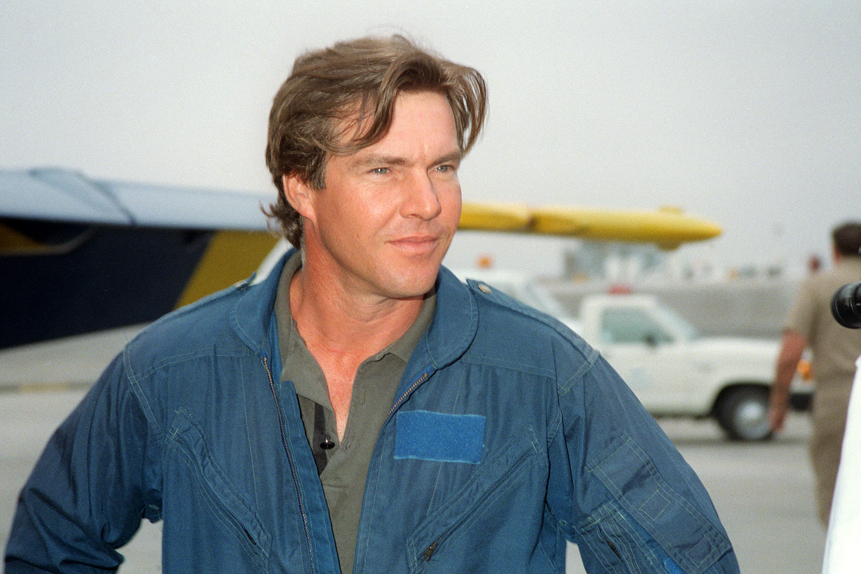 Actor Dennis Quaid prepares for a VIP flight with the US Navy (USN) Blue Angels.